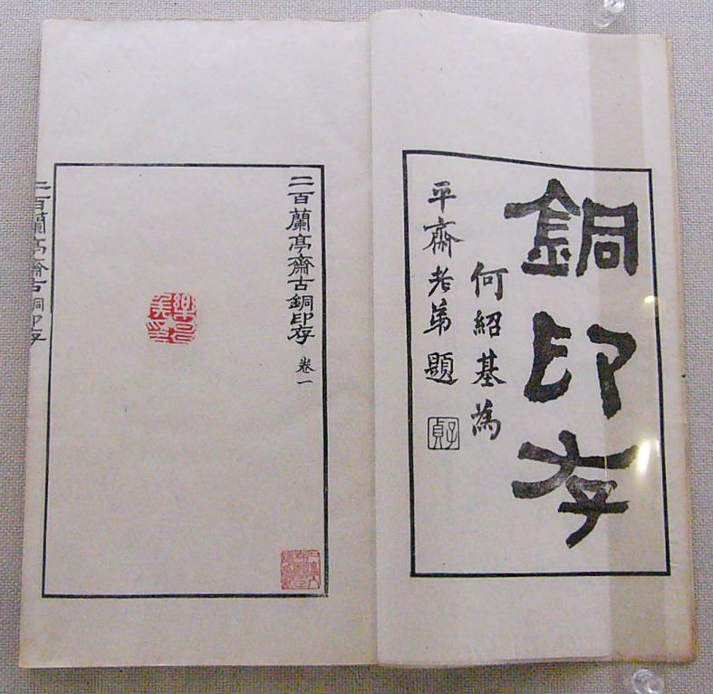 Two pages of 200LangtingTsai ancient Bronze sealbook, China, in Tokyo National Museum